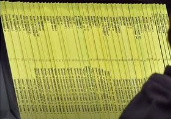 Guy Lefranc books.